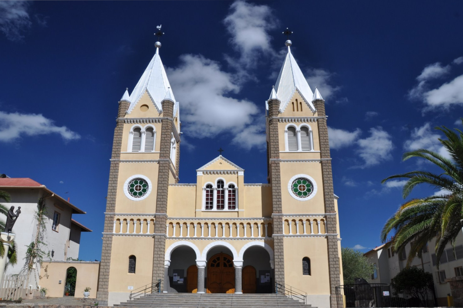 Catholic St. Mary's Cathedral, Windhoek, Namibia